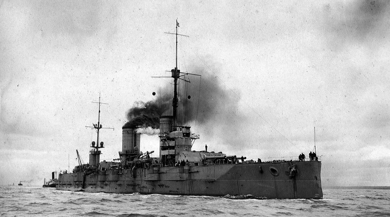 Imperial Russian battleship Sevastopol.